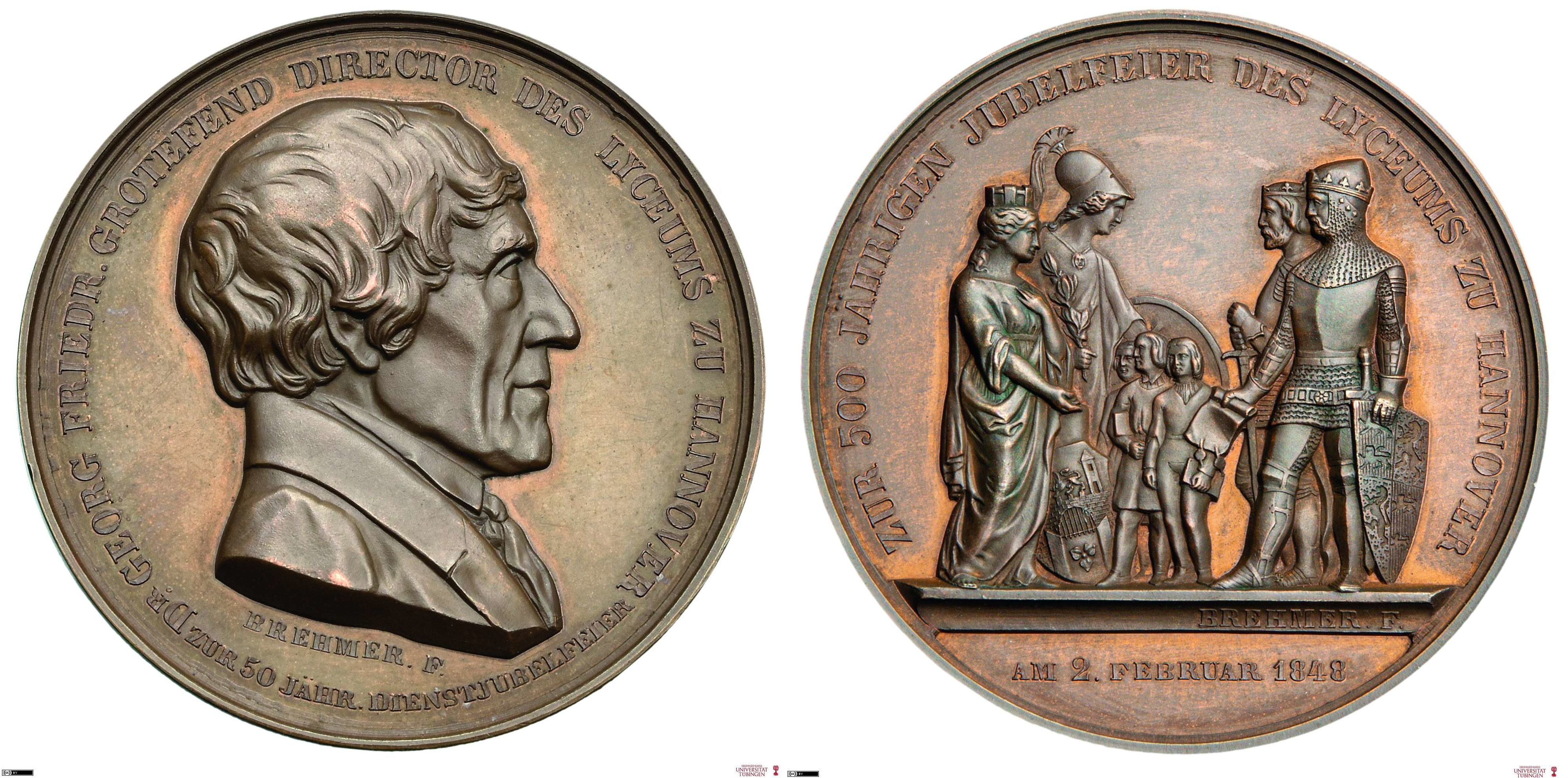 The front side depicts a bust of Georg Friedrich Grotefend who was working as principal of the Lyceum of Hannover. The dedication names his 50th anniversary of working at the school as the first occasion for strucking this medal. The local engraver Heinrich F. Brehmer signed below the bust. The back side deipcts a group consisting of a pair of females, three children and a pair of men. The females can be identified as an Athena and an allegory of the city of Hannover indicated by the heraldic sign of this city on the shield and her mural crown. The men on the other hand are depicted in medieval armour and wearing crowns. The shield on their side depicts the crest of the Duchy of Brunswick-Lüneburg. The dedication names the 500th anniversary of the Lyceum as a second occasion for strucking the medal. The date of celebration is given at the bottom of the medal.